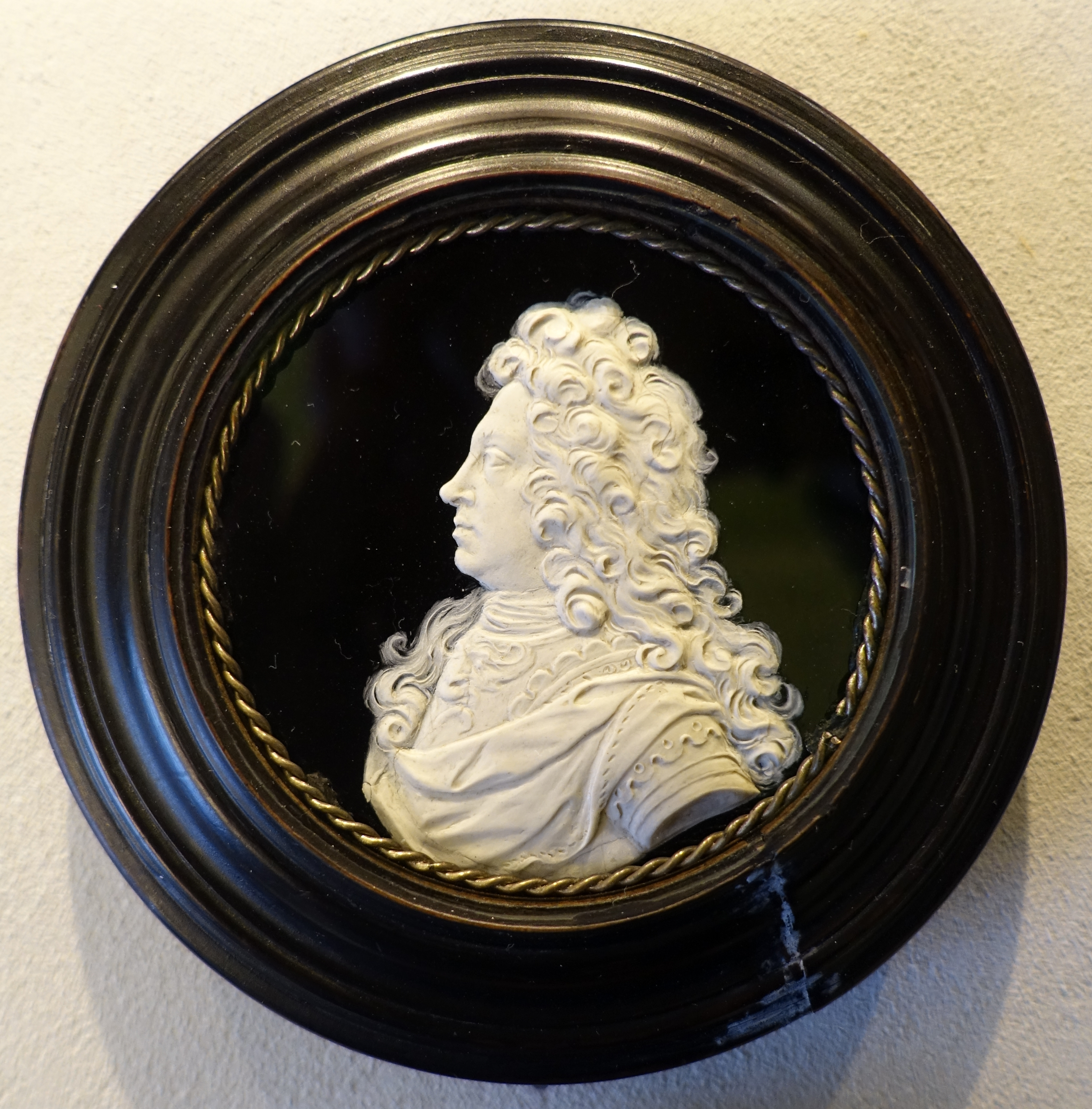 George I of Great Britain (1660-1727). Exhibit in the Bode-Museum, Berlin, Germany. This work is in the public domain because the artist died more than 100 years ago.